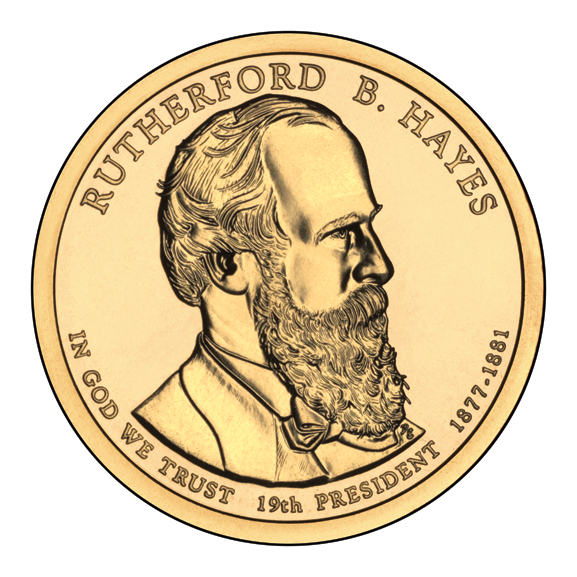 Presidential $1 Coin Program coin for Rutherford B. Hayes. Obverse.